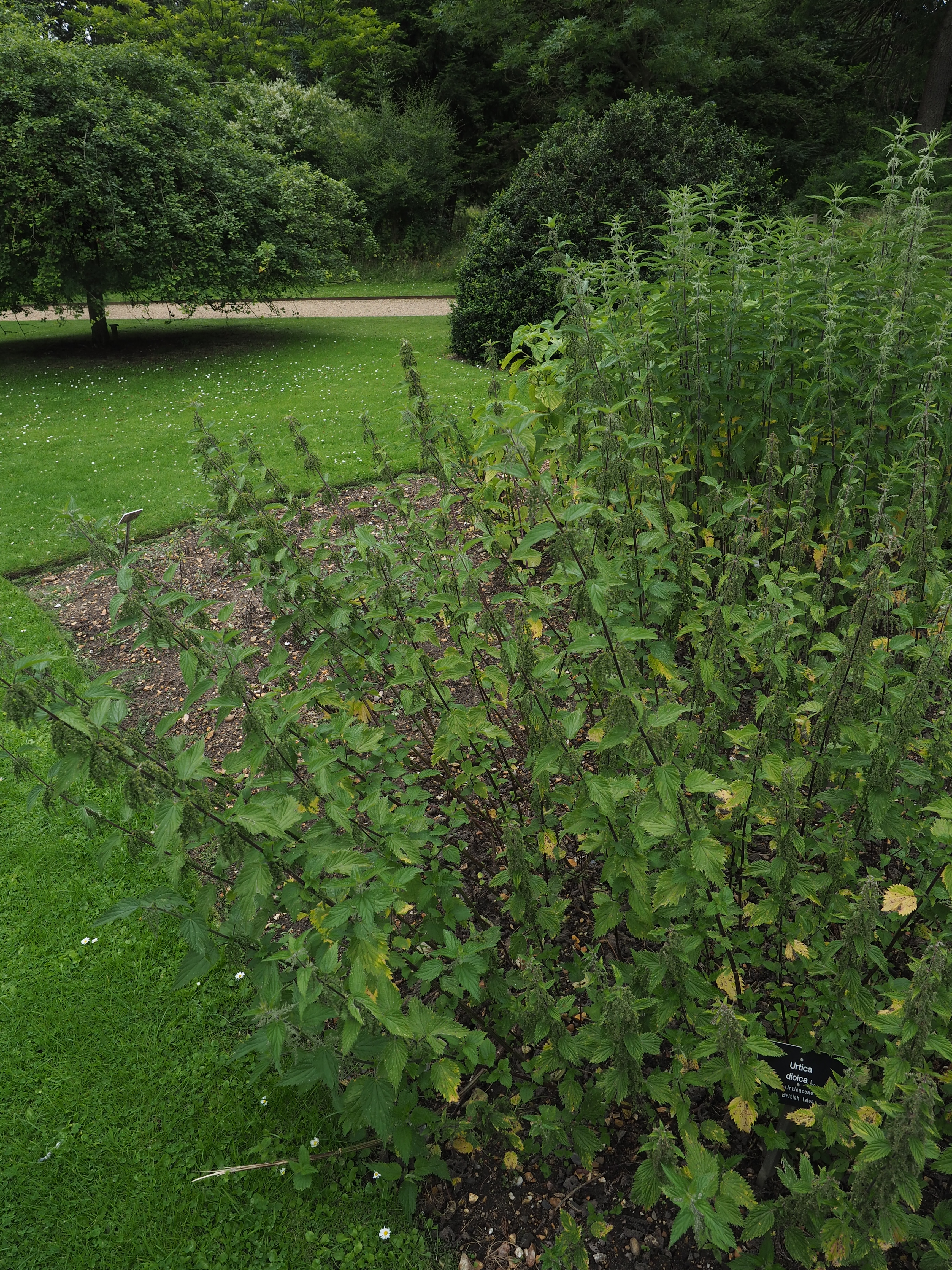 Urtica dioica (Stinging Nettle) grown as a botanical specimen in Cambridge University Botanic Garden. Plant label shown in the lower right corner.